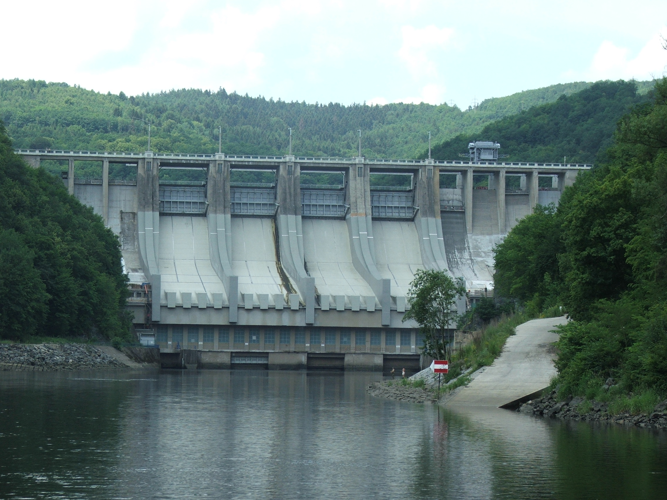 Slapy Dam on Vltava river, Czechia